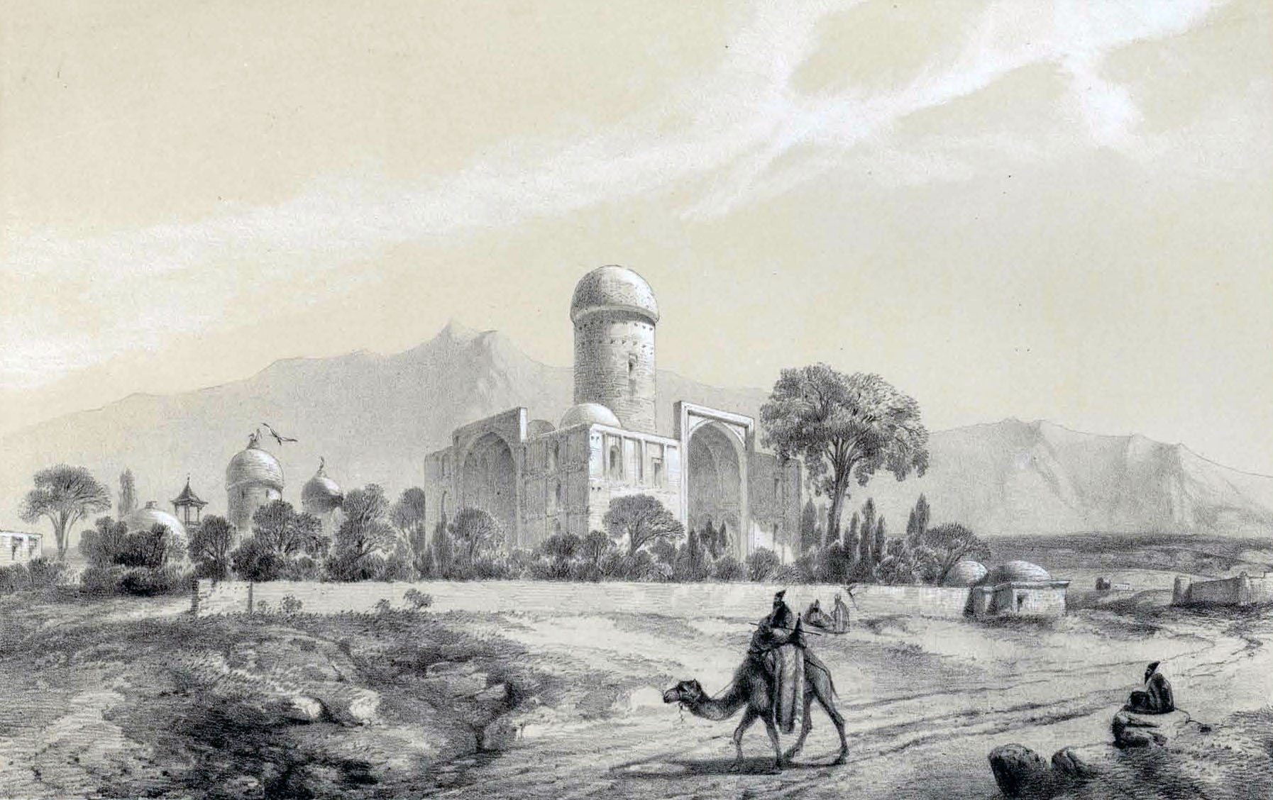 Shah Abdul Azim Mosque, near Tehran